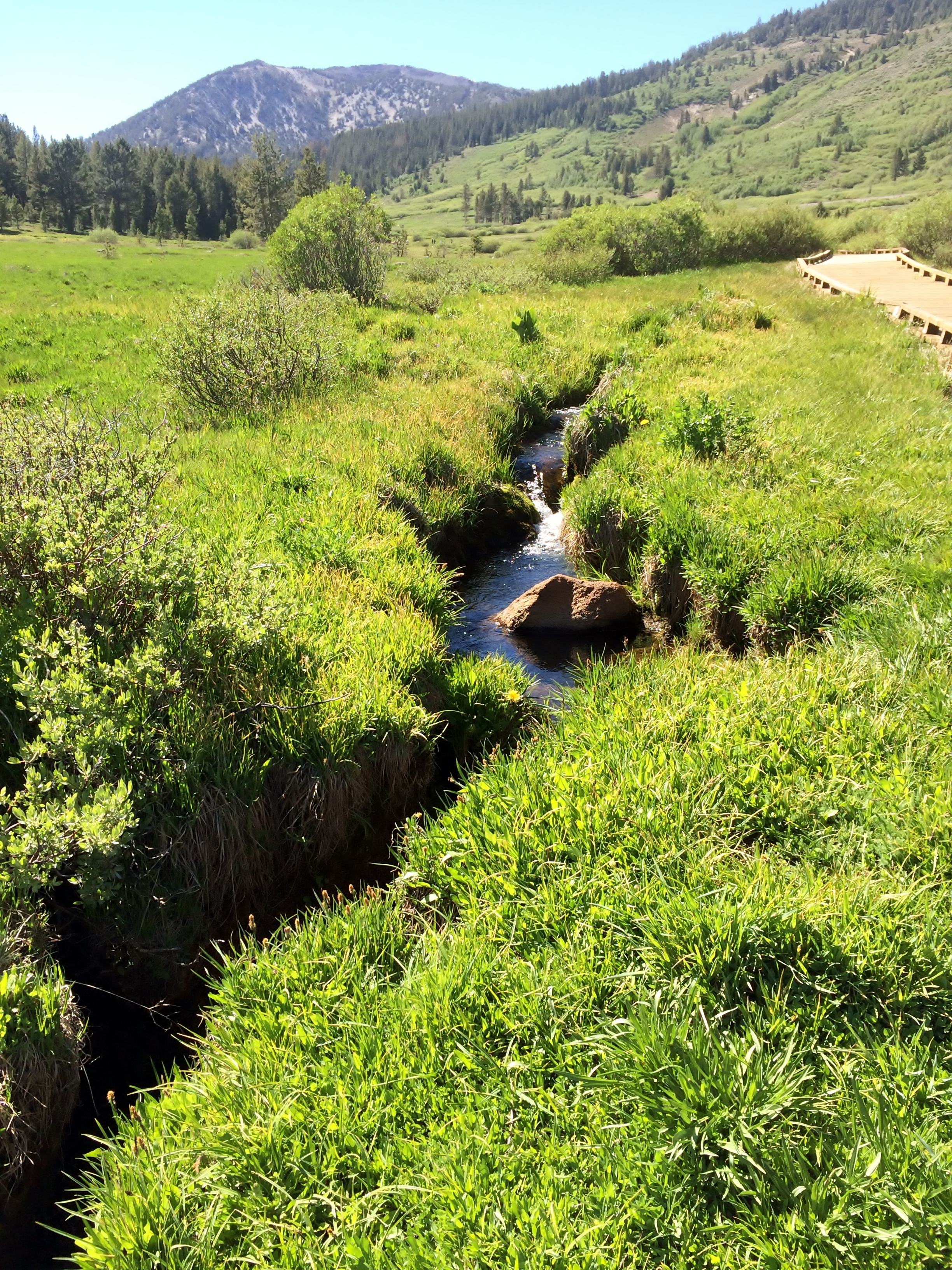 Upper tributary of Ophir Creek in Tahoe Meadows off Nevada State Highway 431 south of Mt. Rose Summit pass in Washoe County, western Nevada.